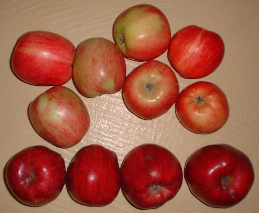 Gravenstein apple, 2 unique red strains British Columbia, Canada